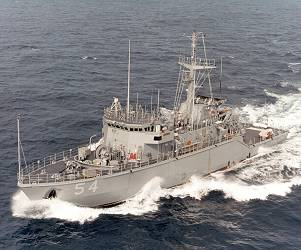 American Osprey class Minehunter Robin